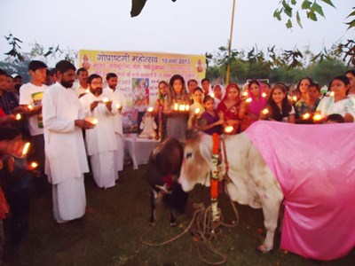 People Worshipping Cow